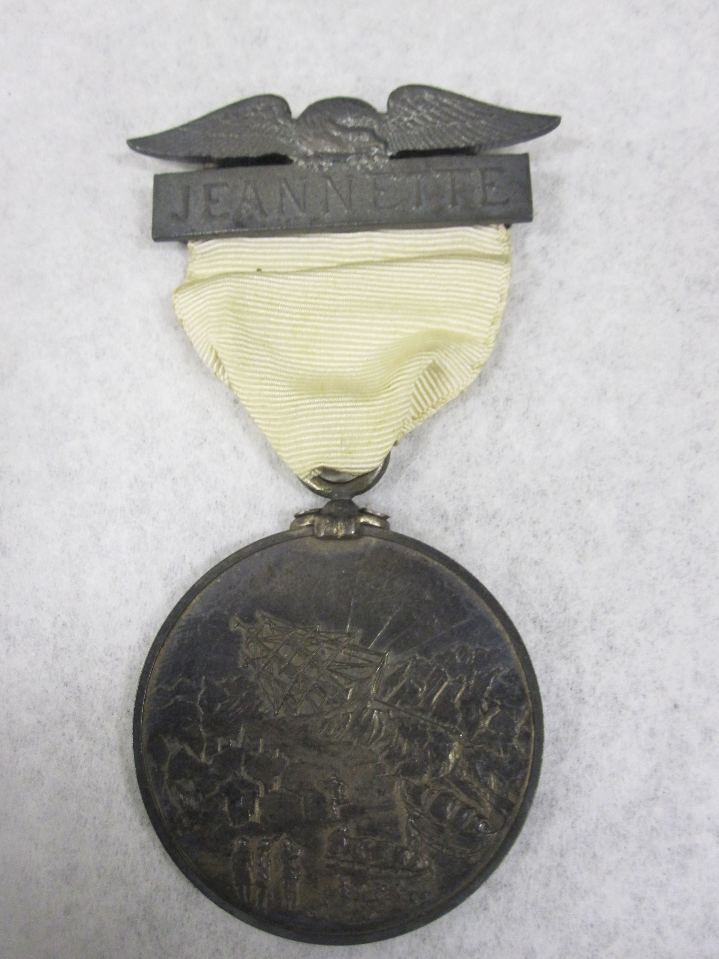 Accession: 2005-86-7 Award, Medal, Jeannette Arctic Expedition. 3.3H" X 1.8L" Silver Medal awarded to Edward Star. "In commemoration of perils encountered and as an expression of the high esteem in which Congress holds his services. Act approved Sept 30, 1890 Jeannette was crushed and sunk in an ice pack on the 13th of June 1881. Collection of Curator Branch, Naval History and Heritage Command.